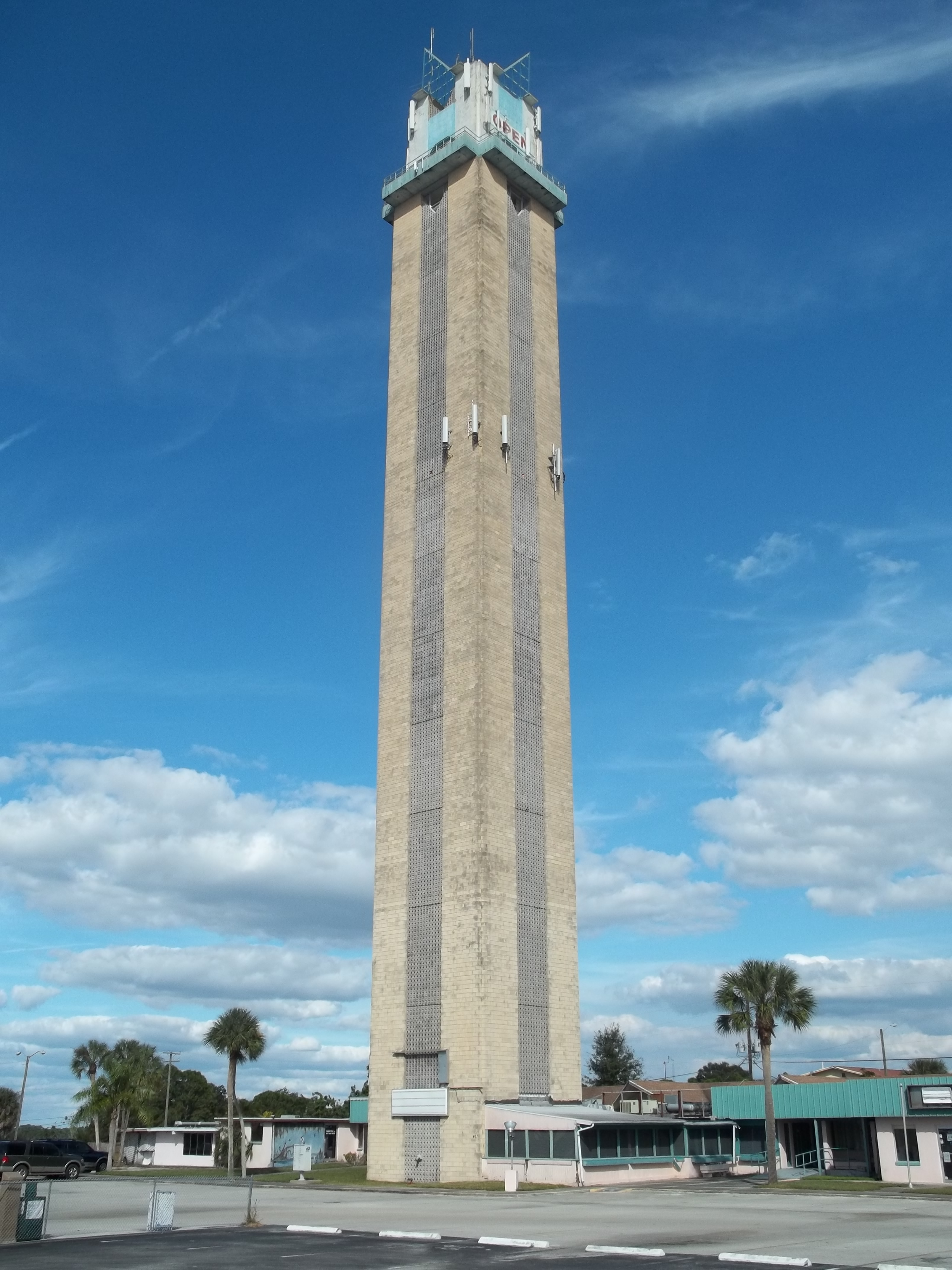 Lake Placid, Florida: Lake Placid Tower, similar in style to the Citrus Tower in Clermont